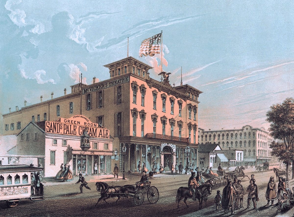 McVickre's Theatre, Madison street, between Dearborn and State streets